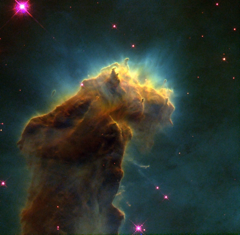 STScI-1995-44 Star-birth clouds in M16, taken from NASA's Hubble Space Telescope (HST) with its Wide Field/Planetary Camera 2 (WFPC2): Stellar “eggs” emerge from molecular cloud. This eerie, dark structure in IC 4703 (the Eagle nebula) is a column of cool molecular hydrogen gas and dust that is an incubator for new stars. The stars are embedded inside finger-like protrusions clearly seen extending from the top of the column. Each “fingertip” is somewhat larger than our own solar system. The pillar is slowly eroding away by the ultraviolet light from nearby hot stars, a process called “photoevaporation”. As it does, small globules of especially dense gas buried within the cloud are uncovered. These globules have been dubbed “EGGs” ; an acronym for “Evaporating Gaseous Globules”. The shadows of the EGGs protect gas behind them, resulting in the finger-like structures at the top of the cloud. ST ScI OPO • PRC95-44b